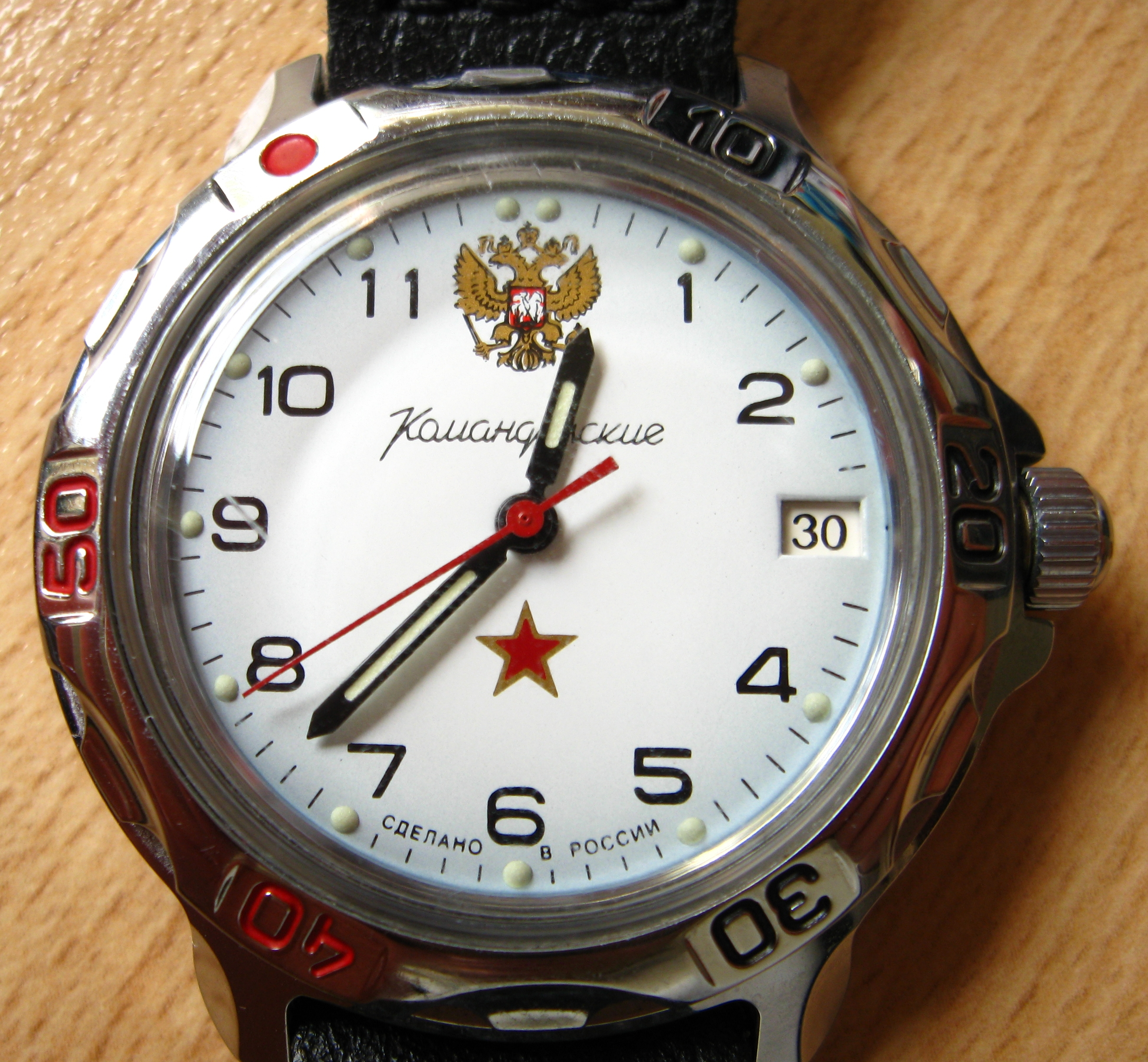 Russian wrist watch "Командирские" (Komandirskie).